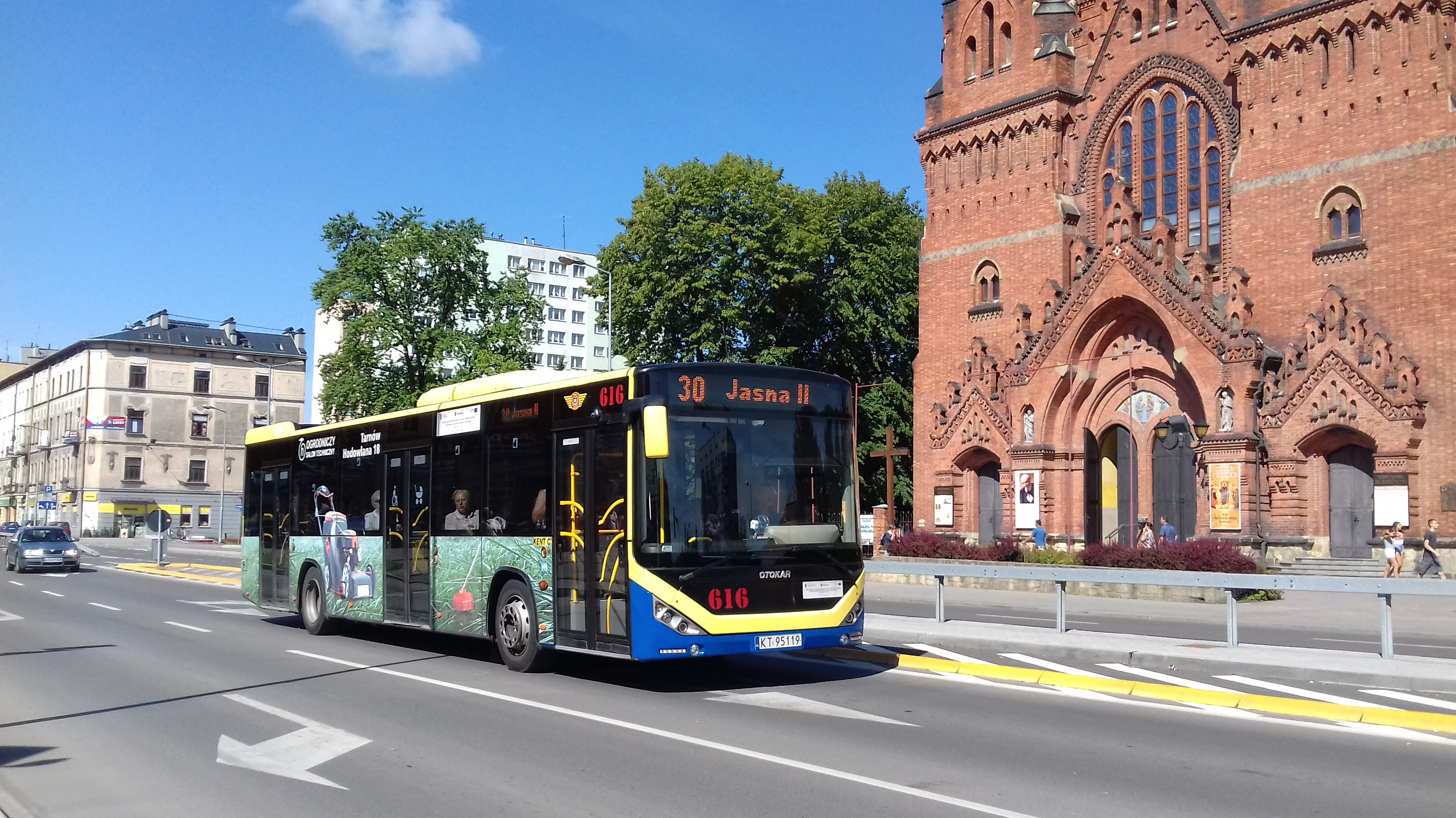 Otokar Kent C #616, MPK Tarnów